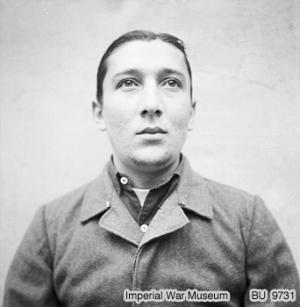 Ignatz Schlomovicz: aquitted at Bergen-Belsen-Trial 17. November 1945